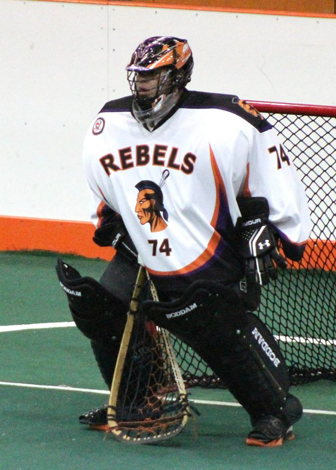 This photo was taken by Devan Mighton during the 2015 OJBLL season.